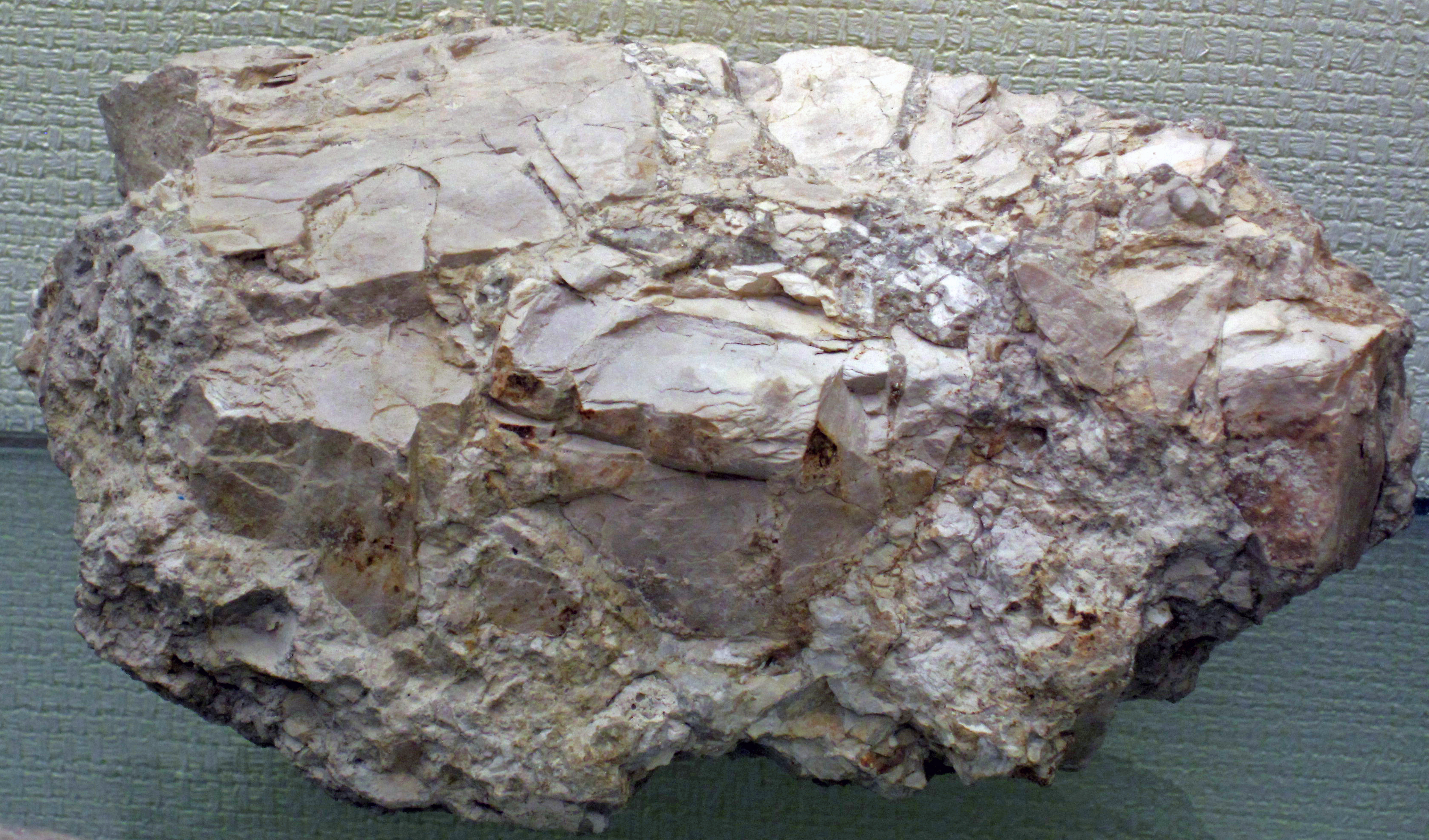 Breccia from the Devonian of Michigan, USA. (public display, Geology Department, Wittenberg University, Springfield, Ohio, USA) This rock is a Devonian-aged dolostone breccia called the Mackinac Breccia. It is exposed in the vicinity of Castle Rock, Michigan. In that area, the unit is a dolostone block breccia - it's principally a jumble of broken blocks of dolostone derived from the St. Ignace Dolomite (upper Upper Silurian). The breccia represents deposition from many collapse events in paleocaverns of dissolved-out Salina Group evaporites (Upper Silurian). Post-Silurian collapse of dissolved-out Salina evaporites was a widespread phenomenon throughout the Michigan-Ohio region. Stratigraphy: Mackinac Breccia, upper Lower Devonian to lower Middle Devonian Locality: outcrop attributed to an Interstate-75 exit near St. Ignace, Upper Peninsula of Michigan, USA For info. on the Mackinac Breccia, see: Landes (1959) - The Mackinac Breccia. pp. 19-24 in Geology of Mackinac Island and Lower and Middle Devonian South of the Straits of Mackinac. Michigan Basin Geological Society.